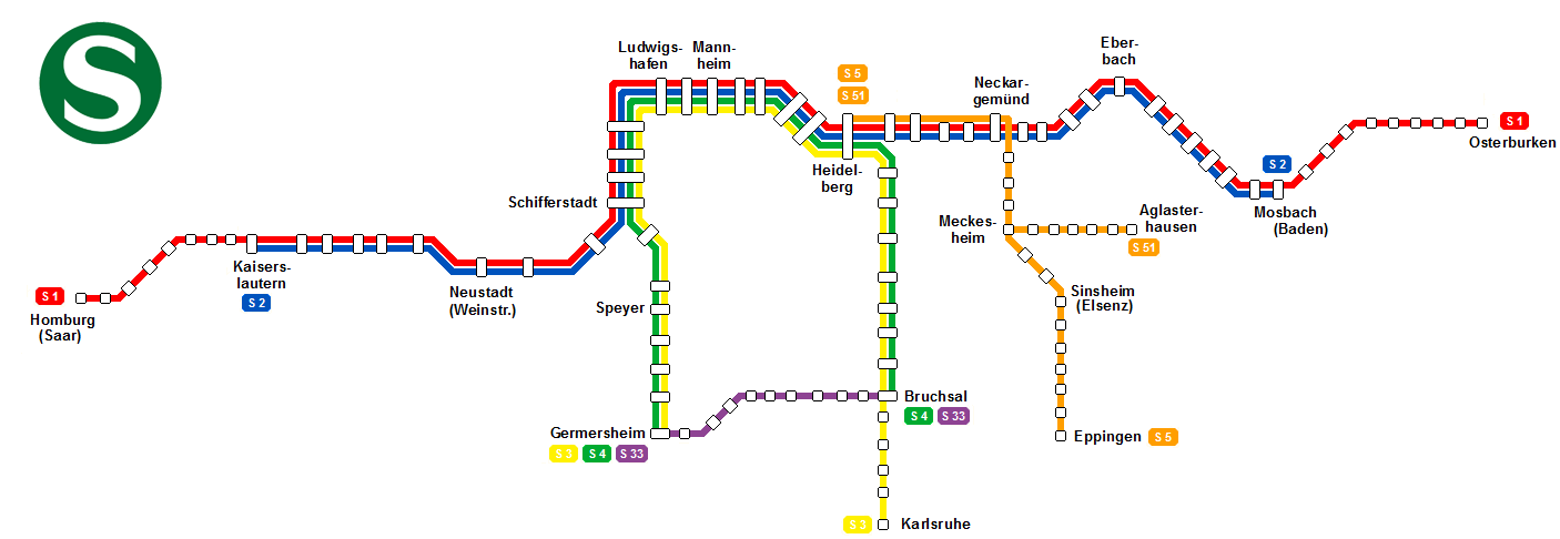 network rapid transit system RheinNeckar 2012